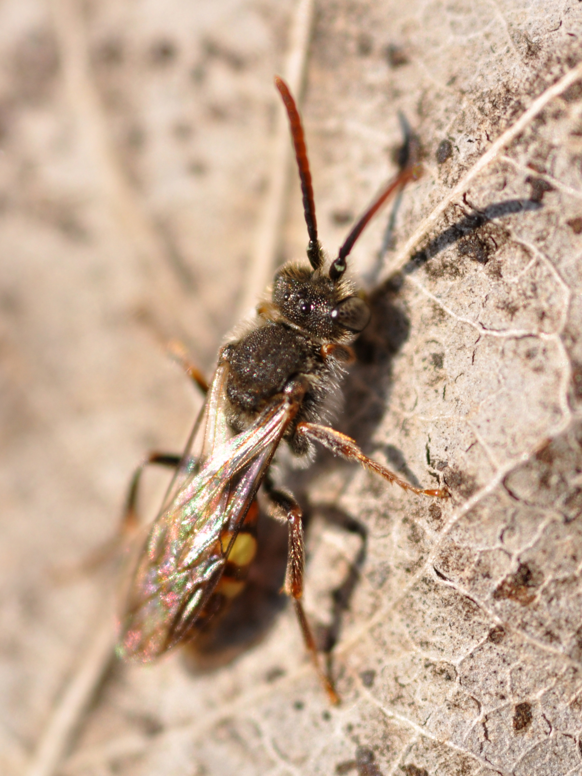 Nomada ferruginata male in Kirchwerder, Hamburg.